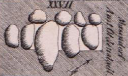 Megalithic tomb near Masendorf, Sprockhoff-No. 780